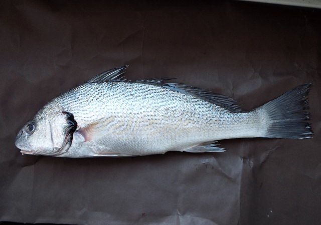 Umbrina cirrosa collected in north Tyrrhenian sea, Tuscany, Italy